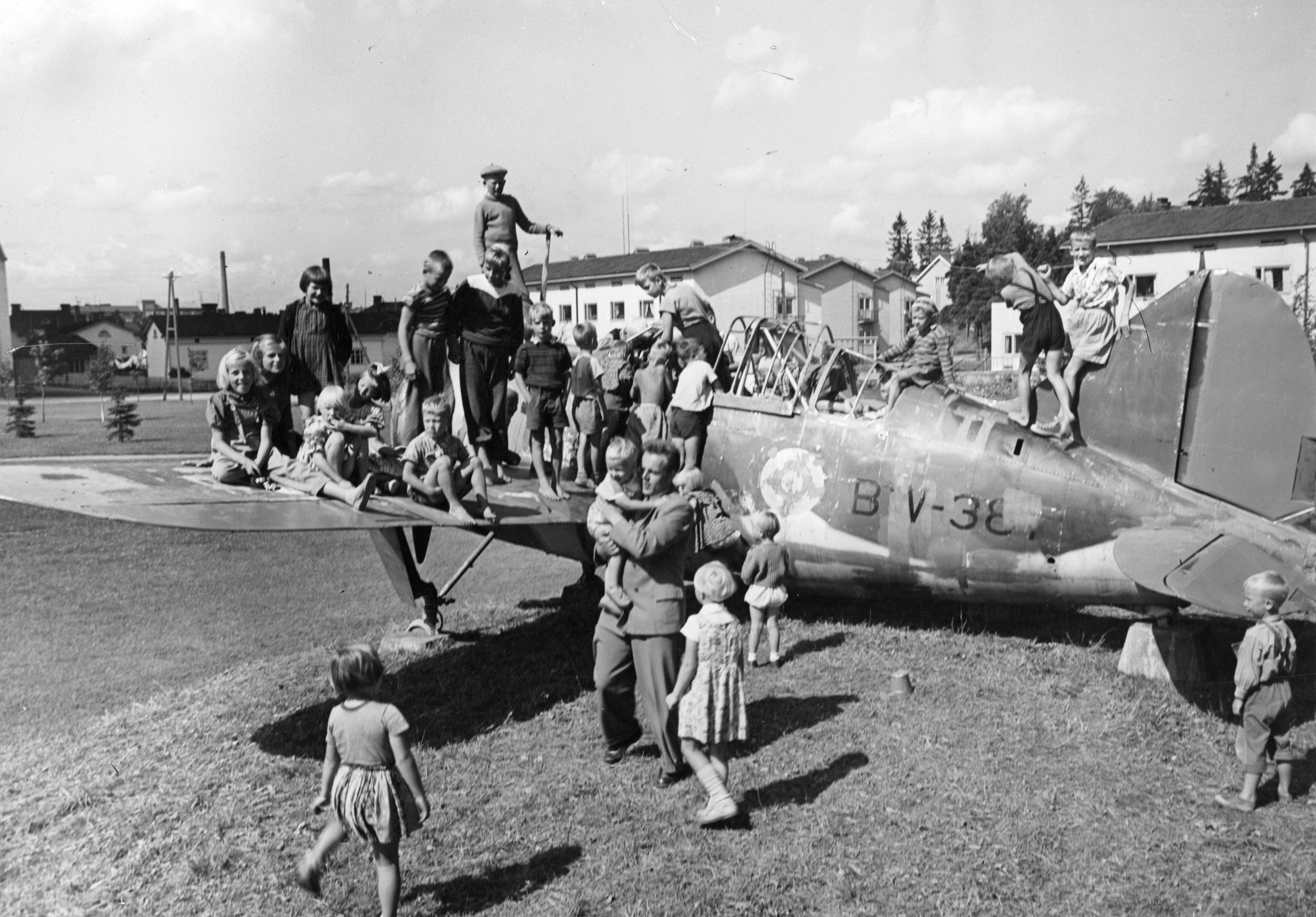 Brewster F2A-1 (BW-387) at childrens playground in Tampere, Finland 1952.